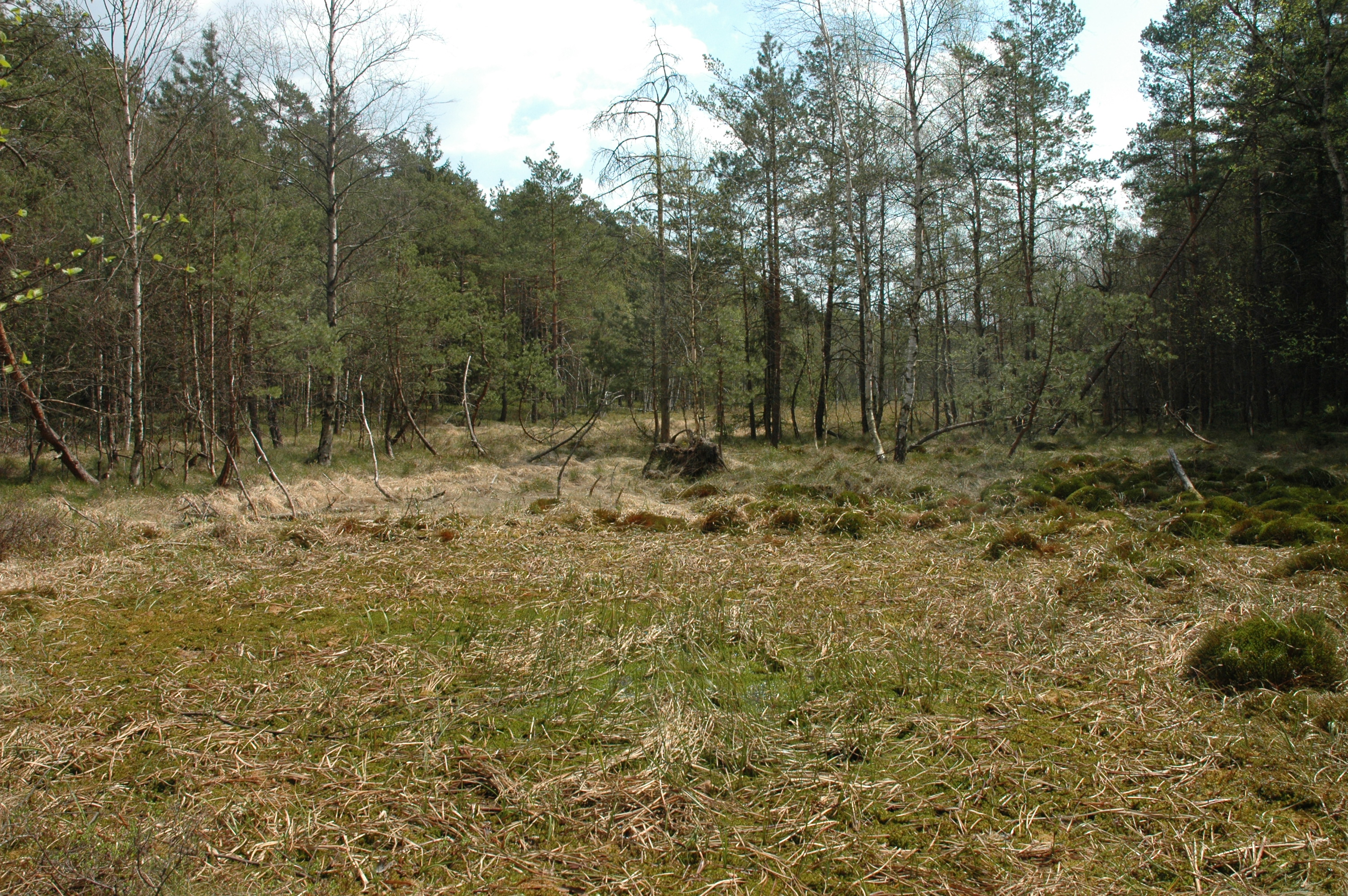 National nature reserve Radostínské rašeliniště in Žďár nad Sázavou District, Czech Republic